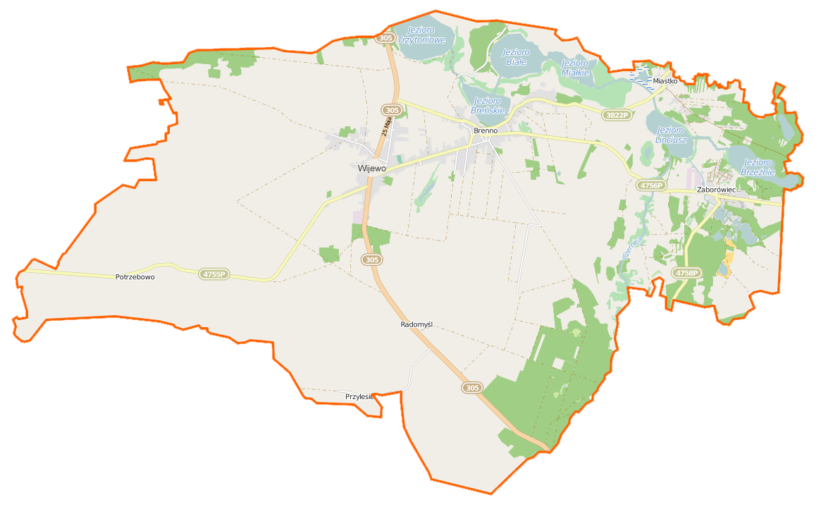 Map of Gmina Wijewo, Poland This map of Wijewo (gmina) was created from OpenStreetMap project data, collected by the community. This map may be incomplete, and may contain errors. Don't rely solely on it for navigation. Border coordinates51.943916.0951←↕→16.295551.8677